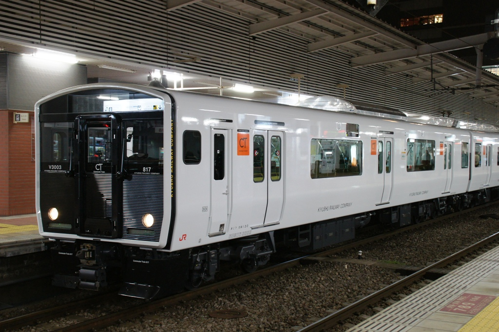 JR Kyushu 817-3000 series EMU set V3003